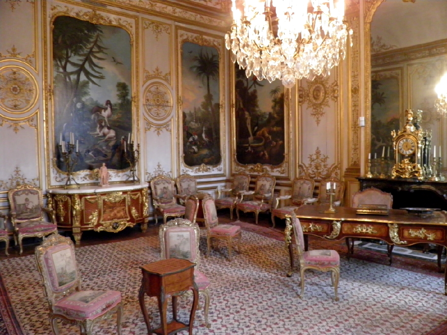 Prince's Chamber, Grands appartements, château de Chantilly, Musée Condé, Chantilly, France.